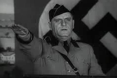 German American Bund Rally: Bund leader Fritz Kuhn. Still from "March of Time" -outtakes - Story RG-60.0699, Tape 316